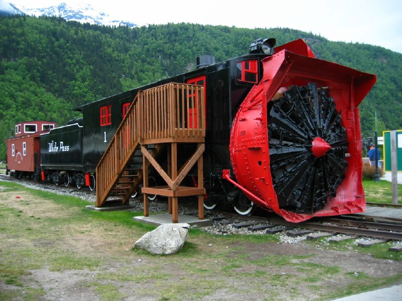 White Pass and Yukon Route steam powered Snow blower